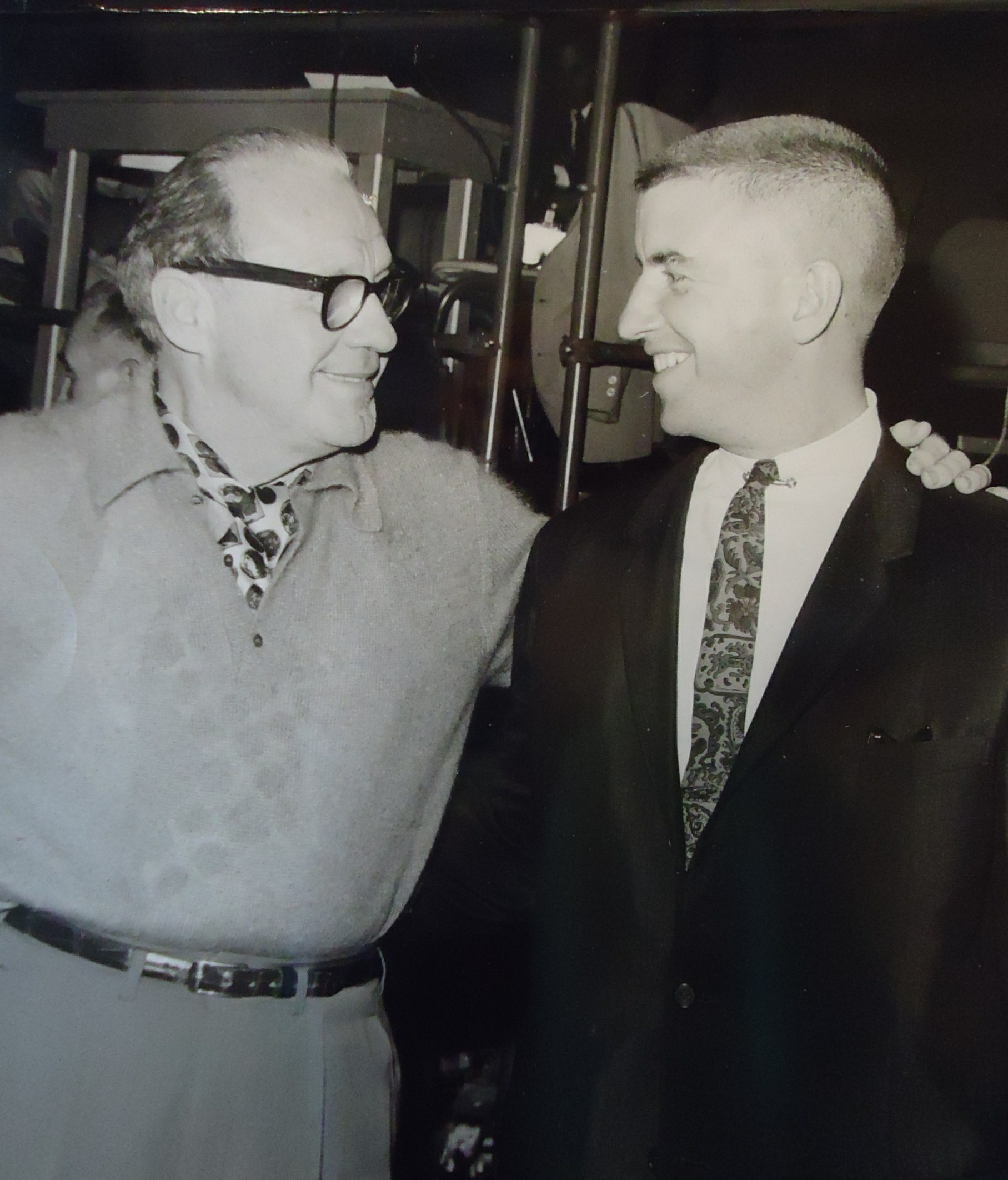 Comedian Jack Benny (left) with advertising copywriter Frederick D. Sulcer in the late 1950s. My mother Dorothy Wright Sulcer took this photoand gives full permission for use in Wikimedia.